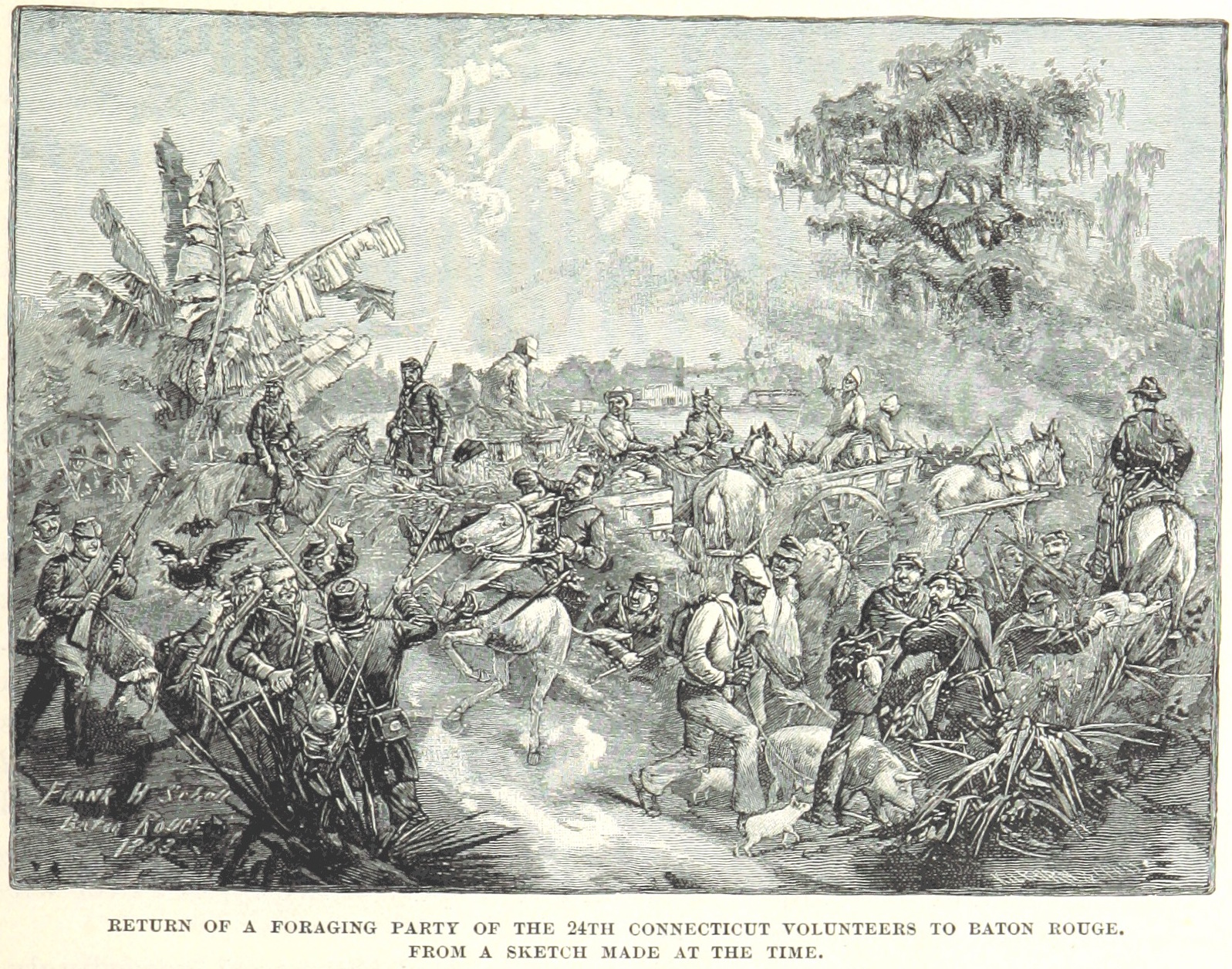 Soldiers of the 24th Connecticut Infantry Regiment return to Baton Rouge after a foraging expedition.